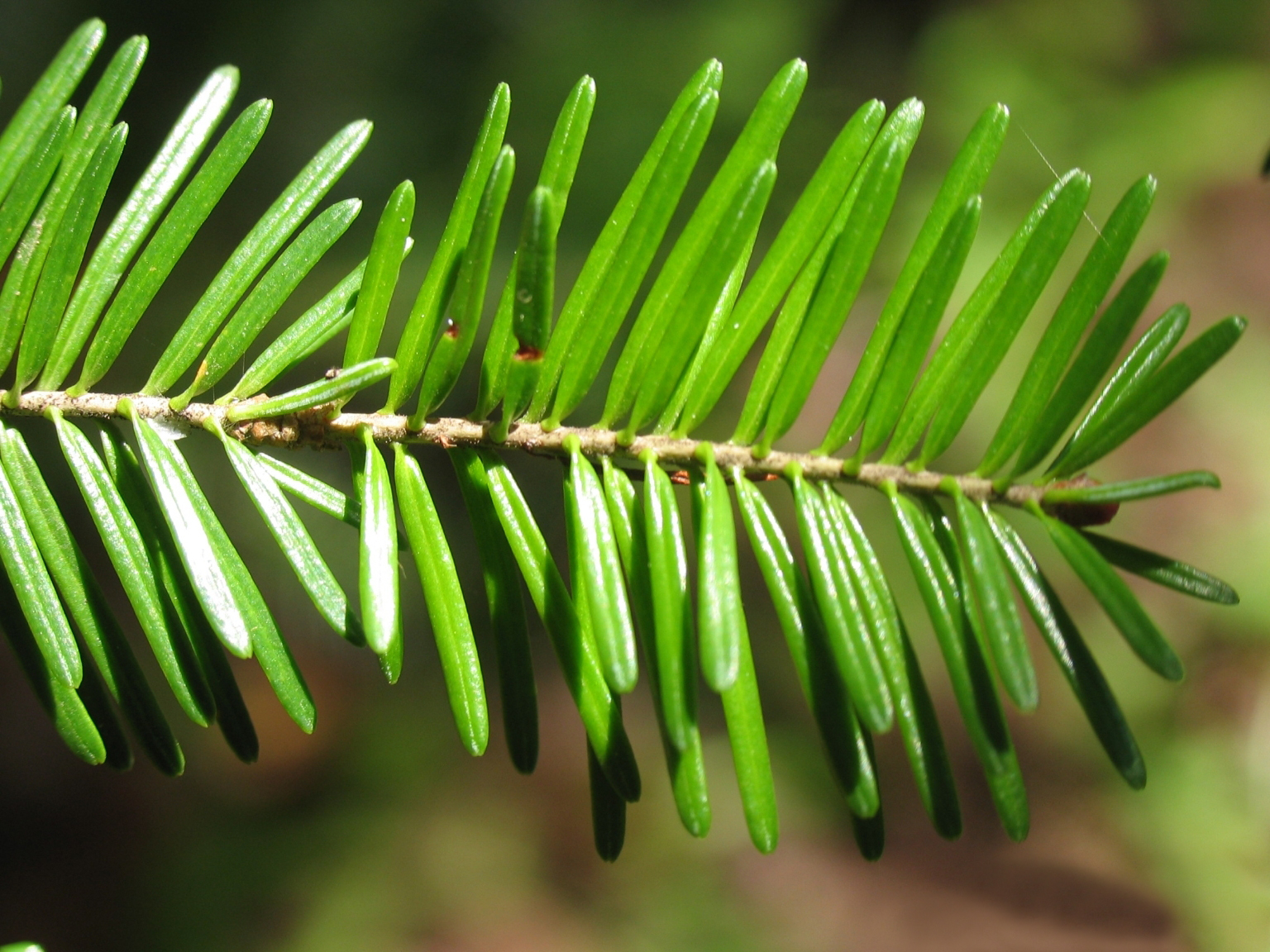 Abies balsamea lower crown (shaded) shoot.